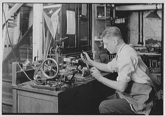 Title: William F. Crosby, residence on Stellar Place, Pelham Manor, New York. Abstract/medium: Gottscho-Schleisner Collection (Library of Congress) Physical description: 1 negative